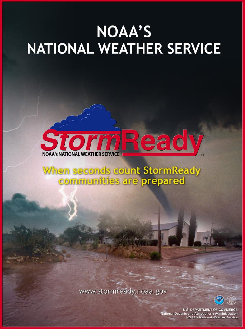 Taken from